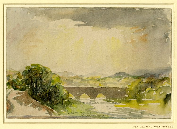 "Bridge near Gargrave," watercolour, by Sir Charles Holmes, British art critic, painter and museum director. The view is of a bridge over a river near Gargrave, North Yorkshire. Signed: "CJ Holmes 1934." 176 mm x 257 mm. Courtesy of the British Museum, London.